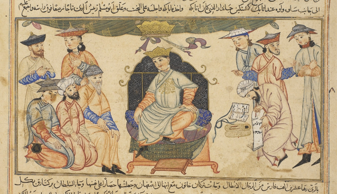 Painting of Barkiyaruq, ruler of the Seljuqs.